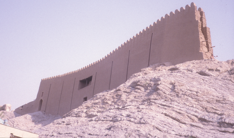 I took this photo with a Digital camera.